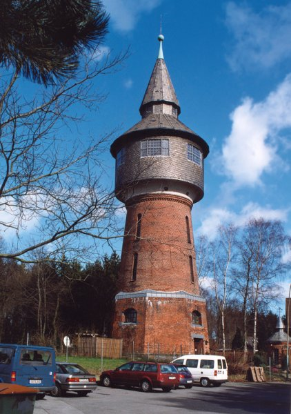 Former water-tower of Pinneberg (Germany)